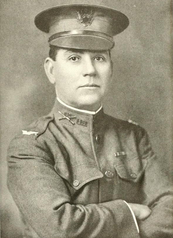 Herbert Ball Crosby (US Army Major General, 1919)